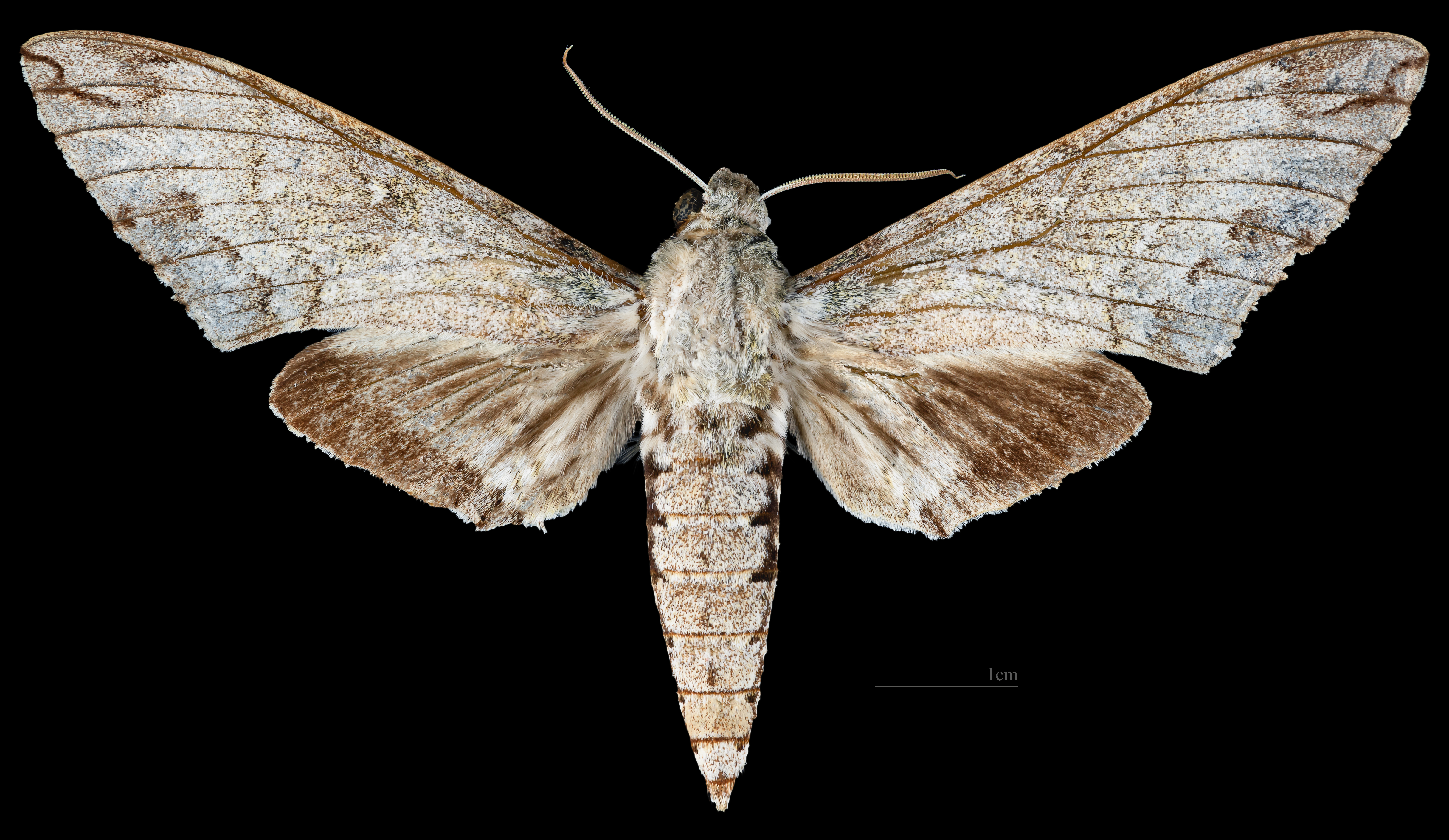 Manduca franciscae - Dorsal side Collection of the Mathematician Laurent Schwartz